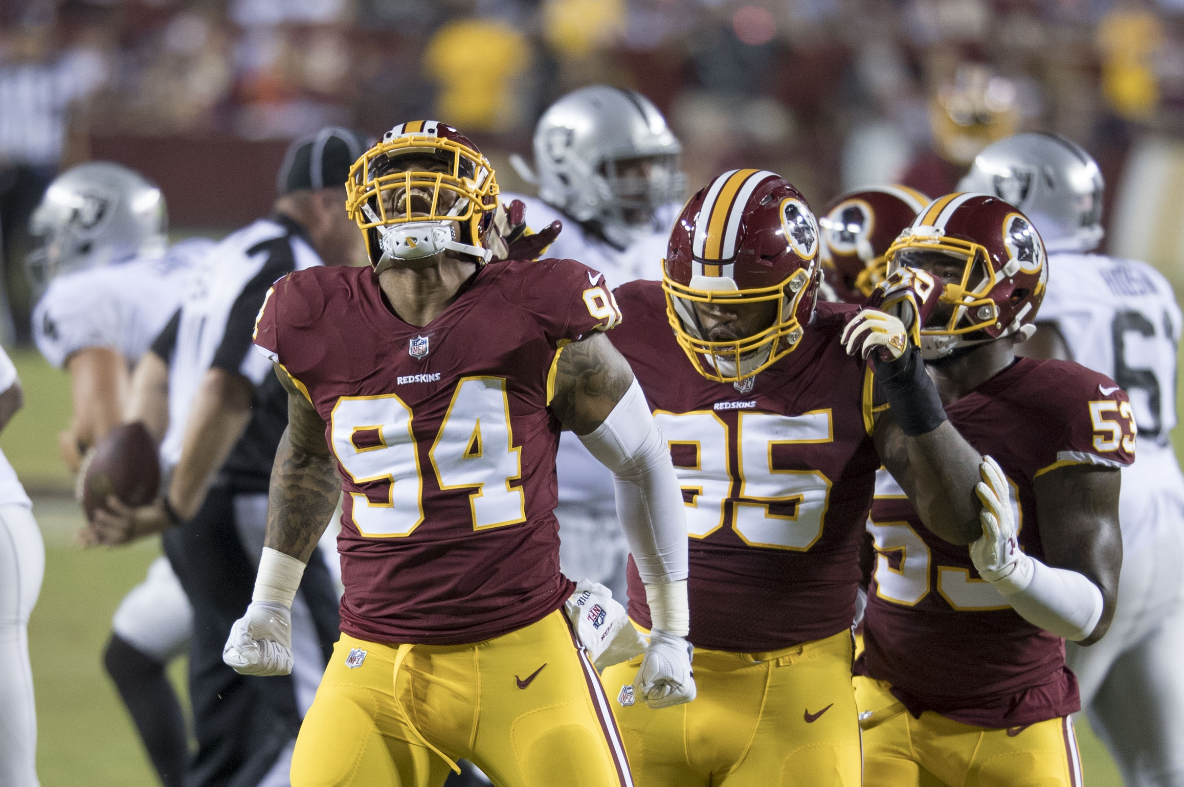 Washington Redskins outside linebacker, Preston Smith, celebrating after making a play against the Oakland Raiders on September 24, 2017.